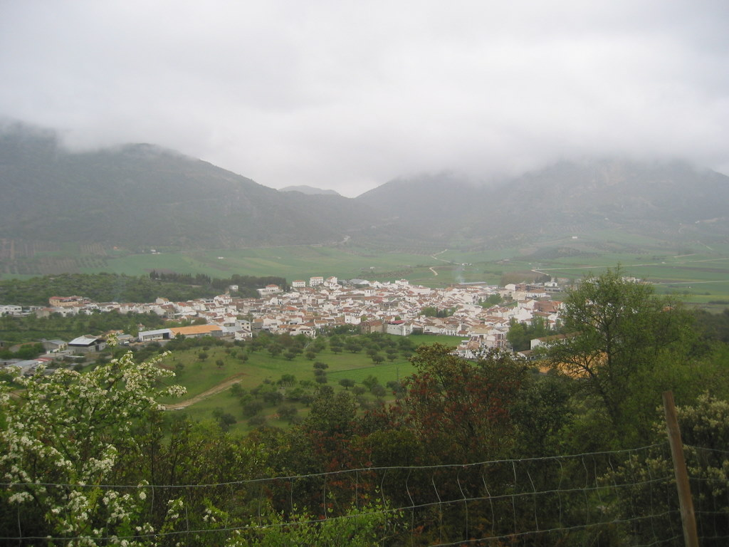 View of Alfarnate, Spain.